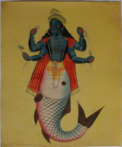 Matsya, Kalighat painting